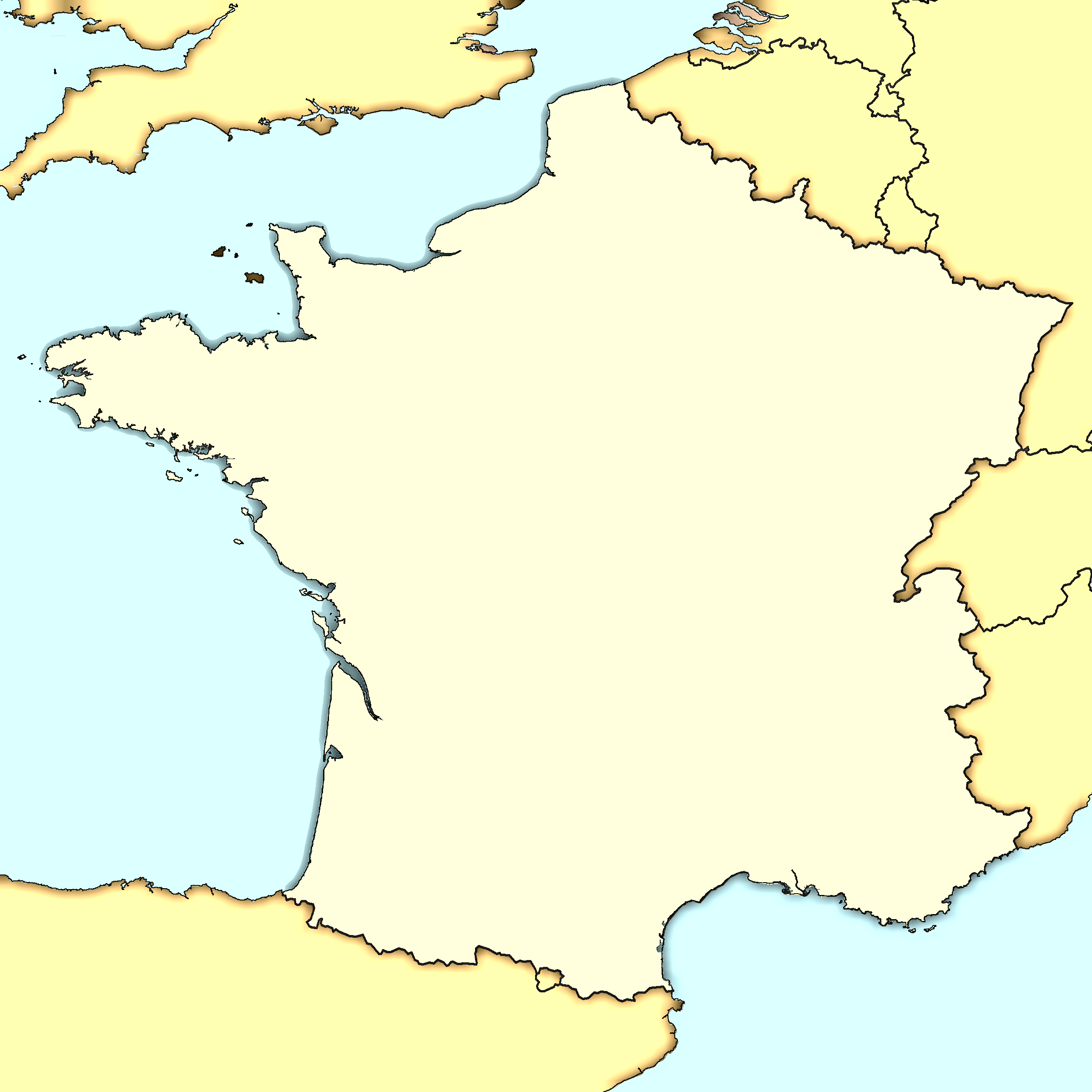 A blank map of France (modern style)